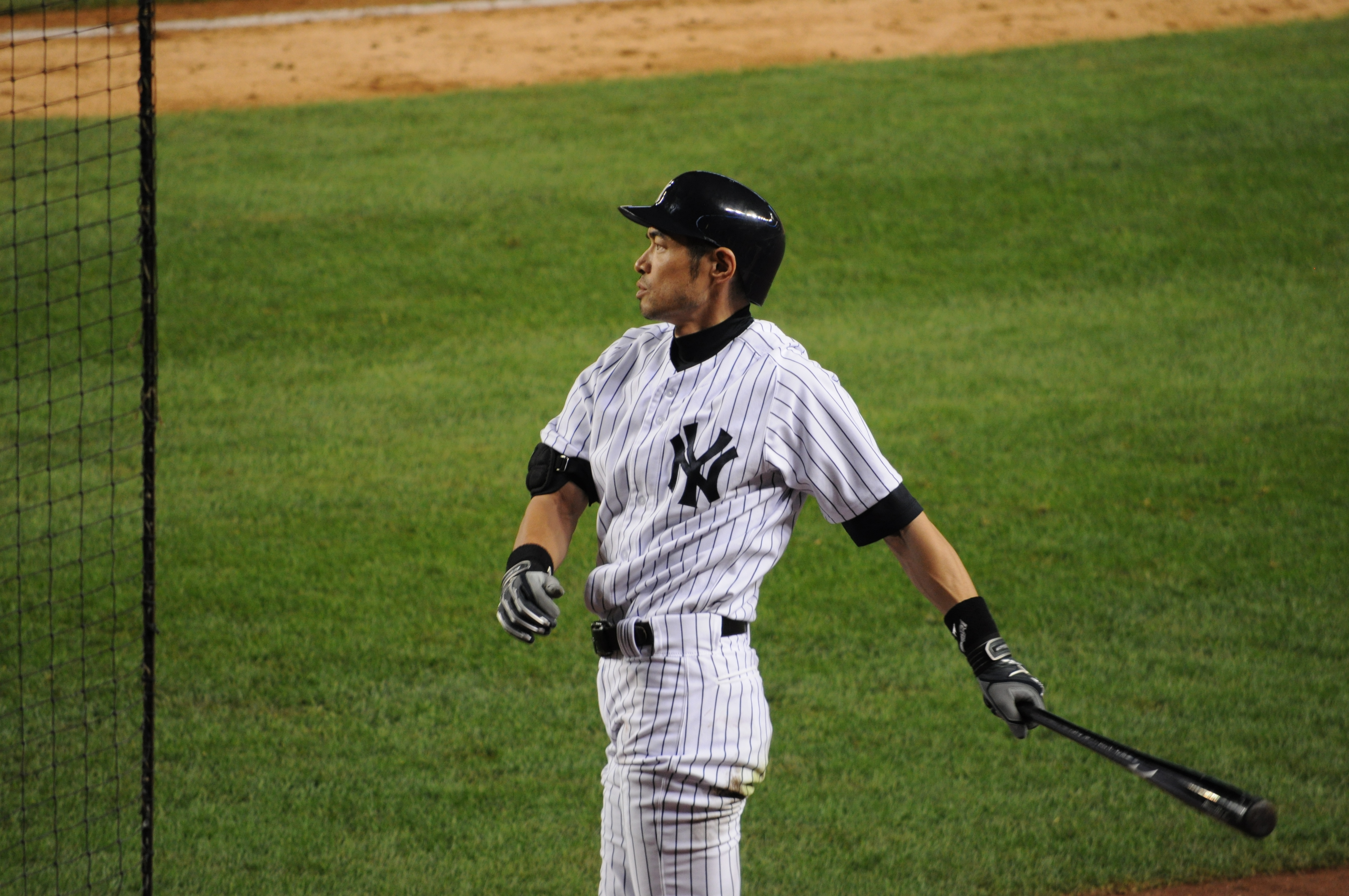 Ichiro on deck as a New York Yankee